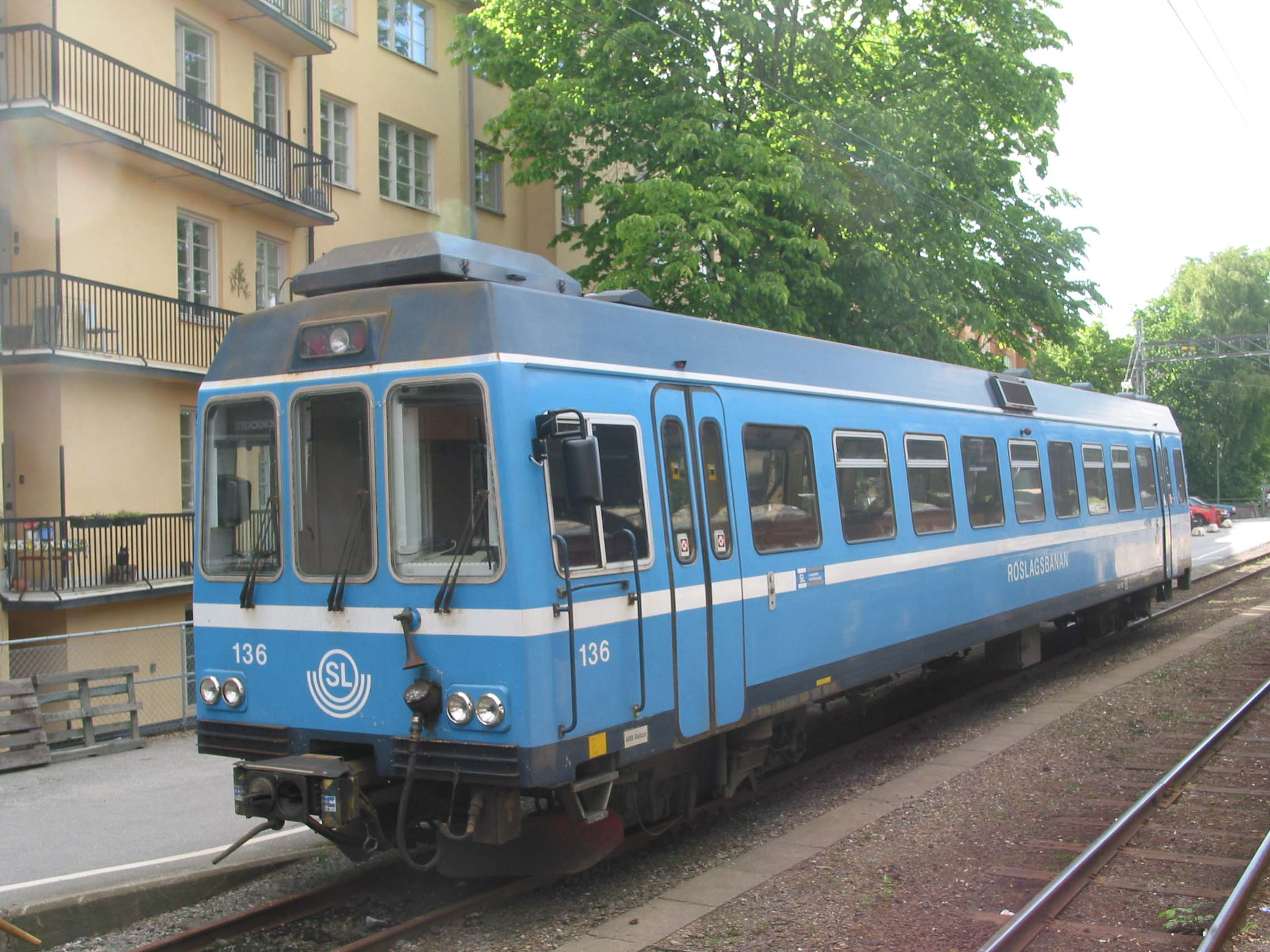 SL UBxp 136 at Stockholm östra in Stockholm.